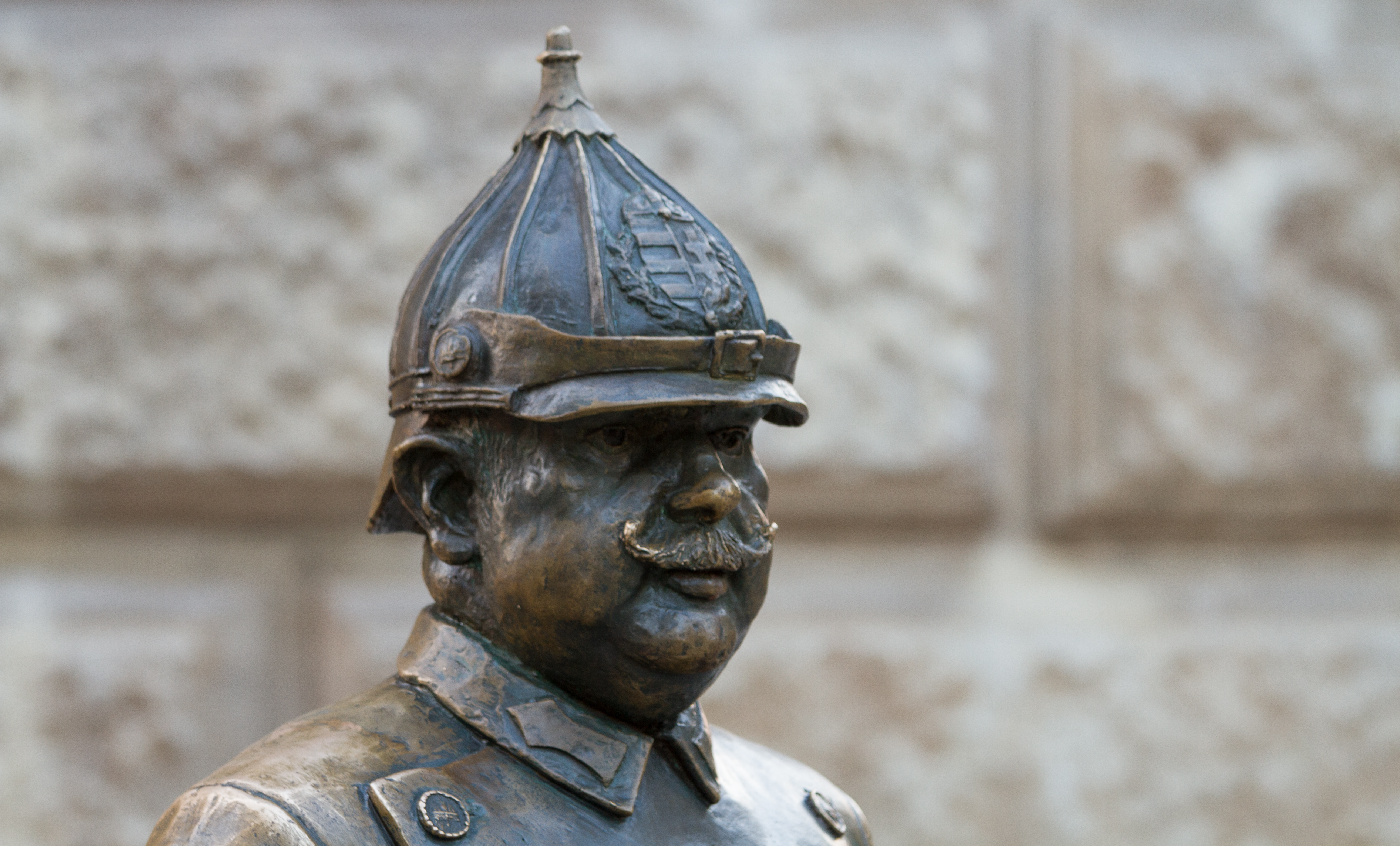 Closeup of the statue of a Hungarian policeman from the early 1900's along Zrínyi utca near St. Stephen's Basilica.